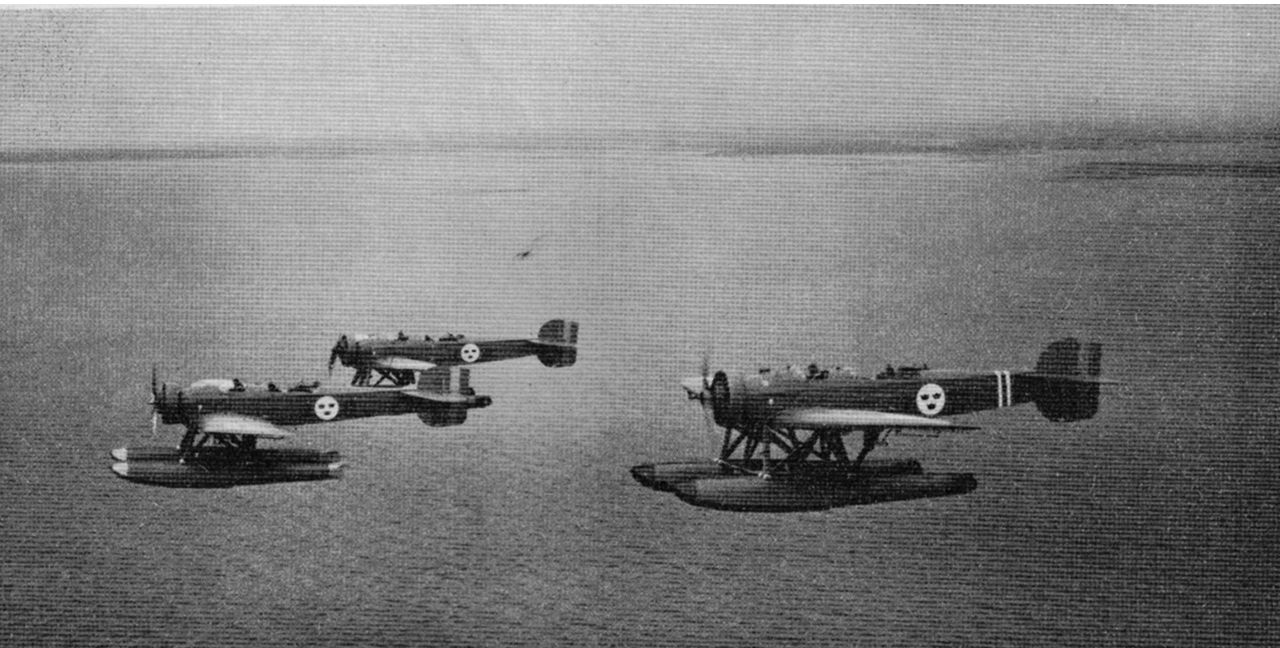 Swedish airforce seaplane type Heinkel HE 5 S5C